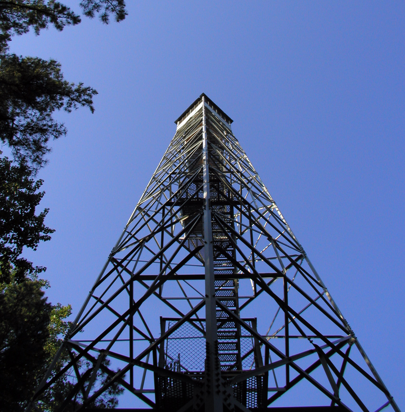 Hickory Ridge Fire Tower located in the Charles C. Deam Wilderness Area of Hoosier National Forest in Southern Indiana. The fire tower is the only remaining tower of eight that used to exist within the boundaries of the national forest.